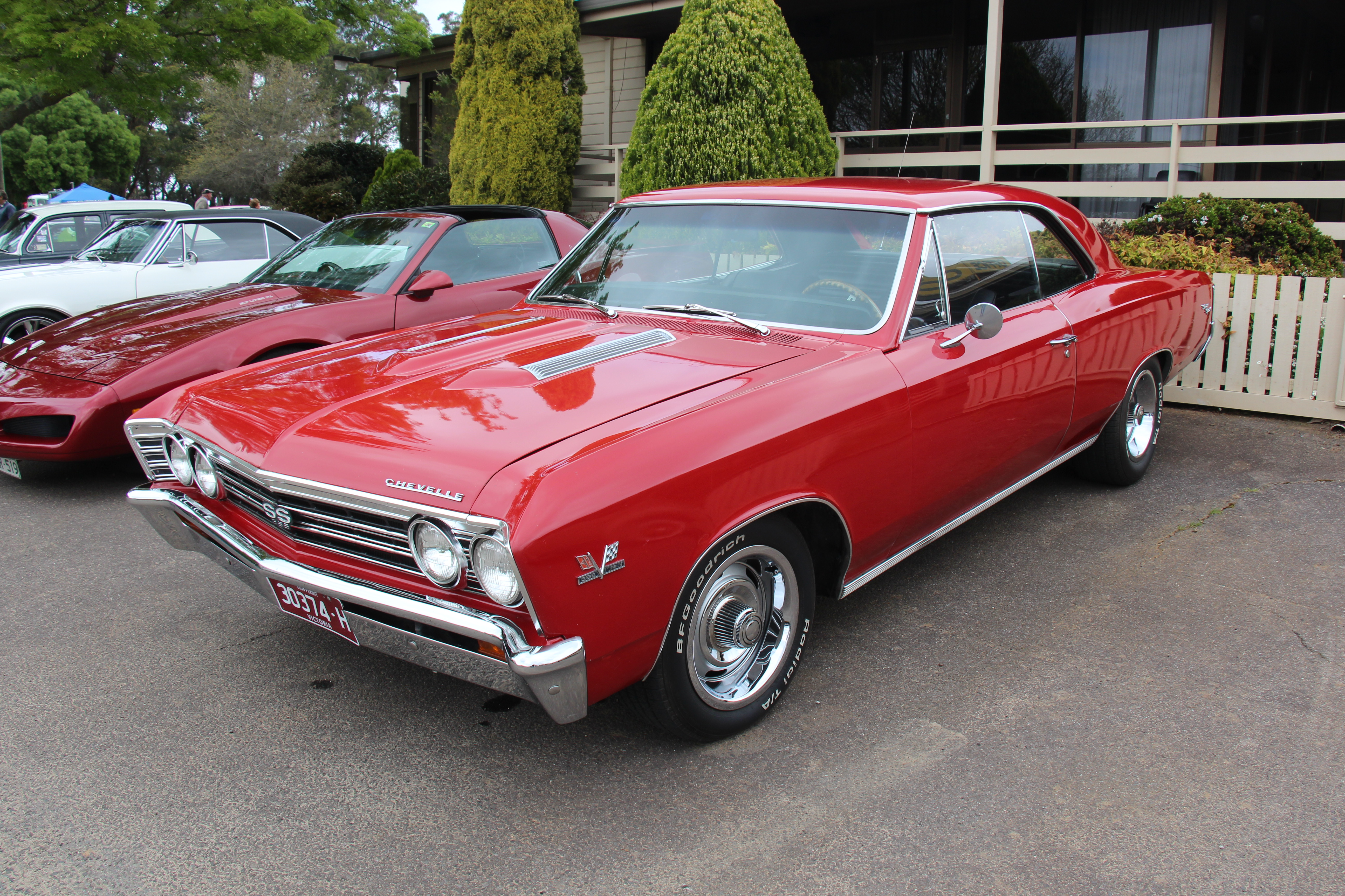 The 67 was still the 1st generation of Chevelle on the same frame as the 64/65 cars, they got a restyled body in 1966 with a smoother contour and coke bottle styling. 1967 saw updated grille and taillights loosing the angled back front on the fenders. Available in Hardtop Coupe, Convertible, Sedan and Wagon, the SS performance package was only available in Sports Coupe or Convertible. Now called the SS396 because the SSs all got the 396 cu in engine, standard Sports Coupes were the Malibu The SS got a strengthened chassis, stiffer suspension, simulated hood scoops, extra chrome mouldings, bucket seats, console and extra gauges. Engine; 325, 360 or 375bhp 396 cu in